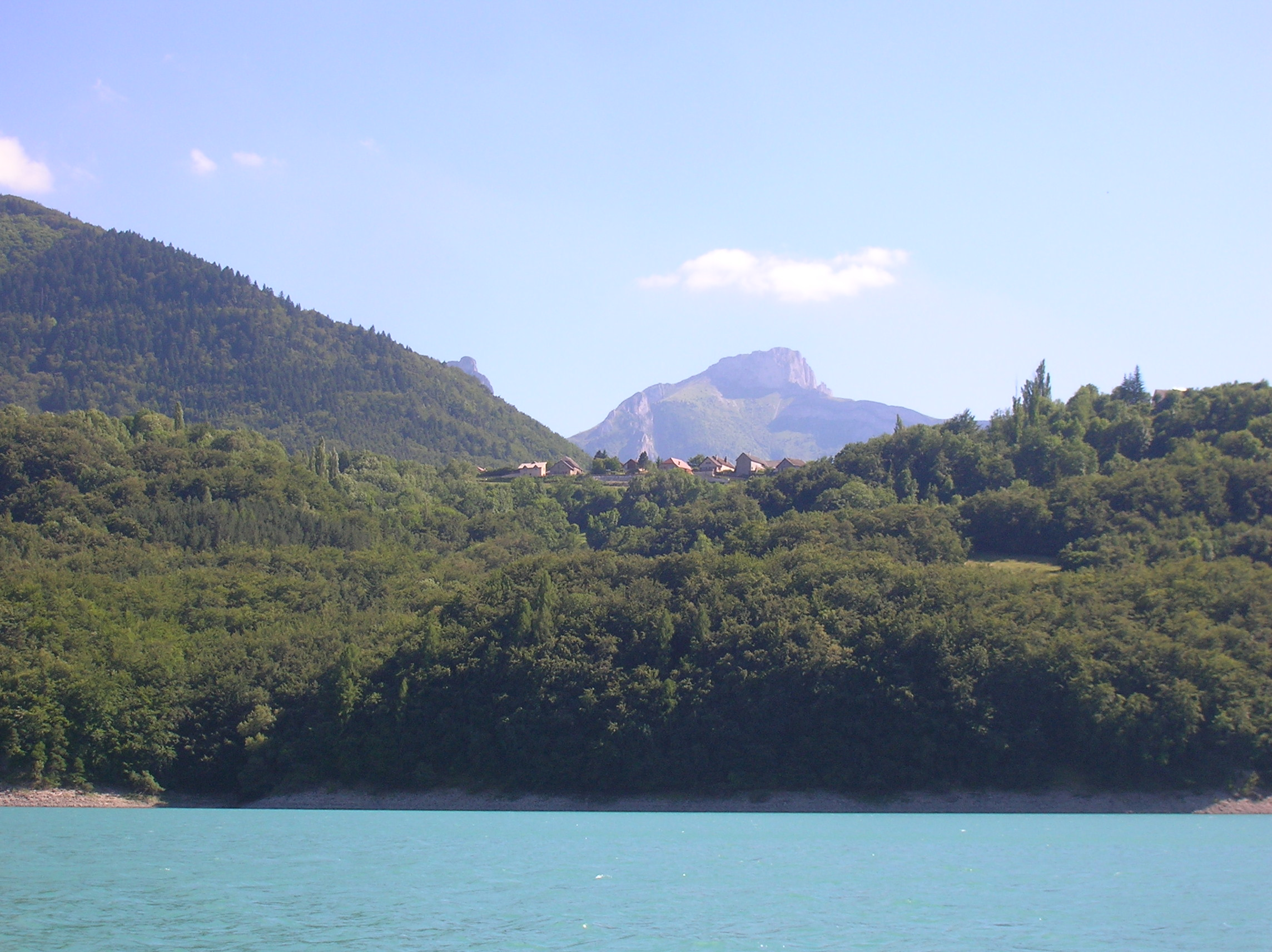 Notice: the village on this picture is not Monestier-d'Ambel but Ambel (Isère).